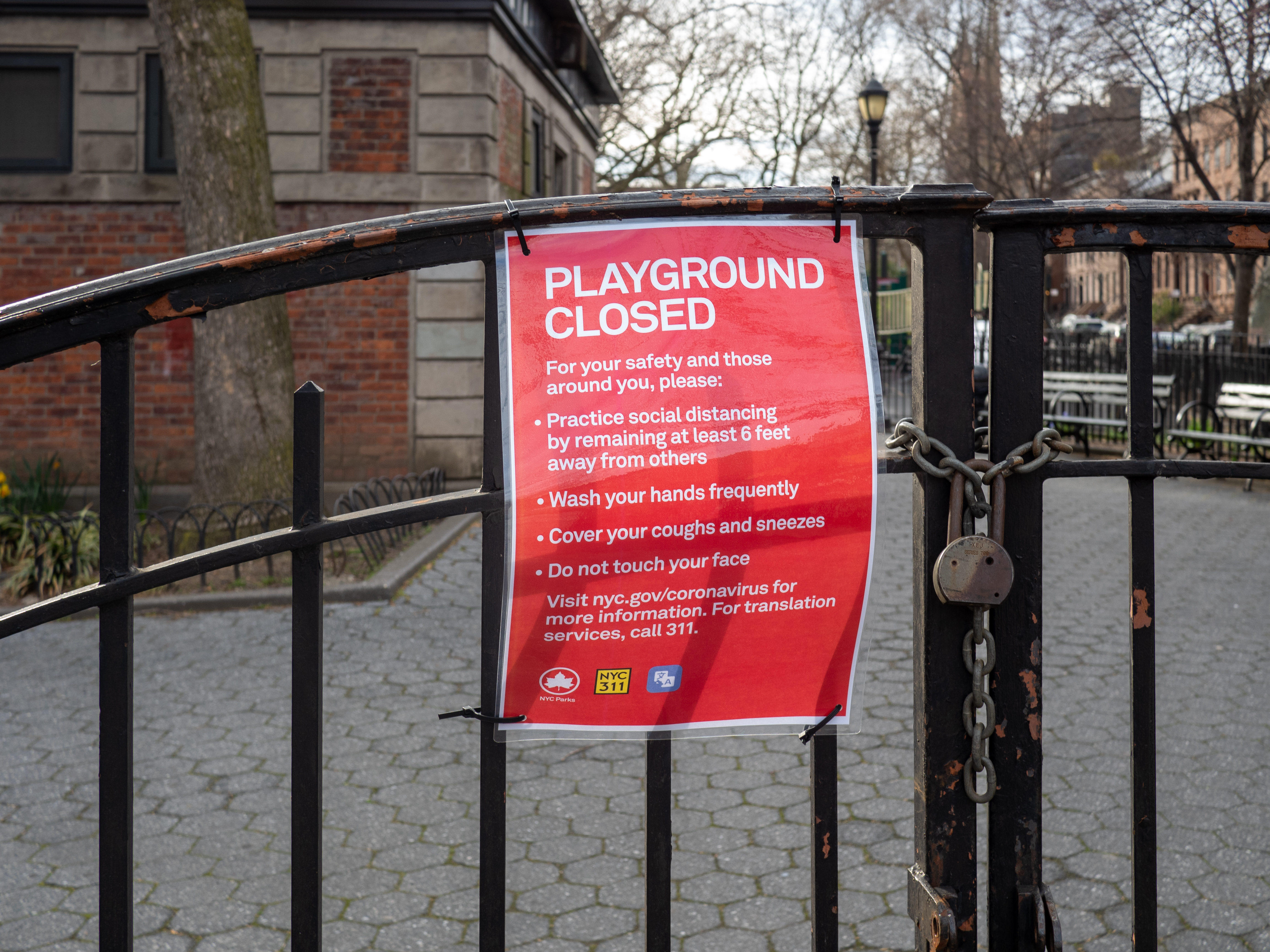 Playground in Brooklyn, NY closed during the COVID-19 pandemic.